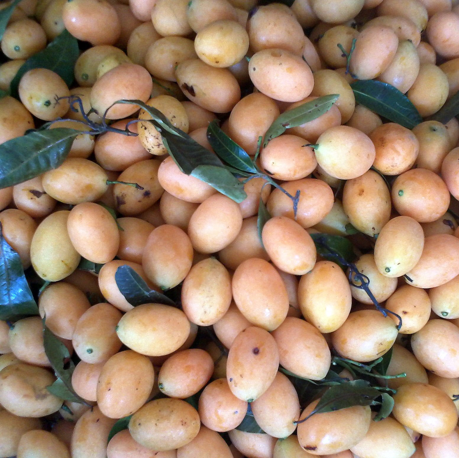 Bouea macrophylla or Buah Remia or Buah Setar or Buah Kundang